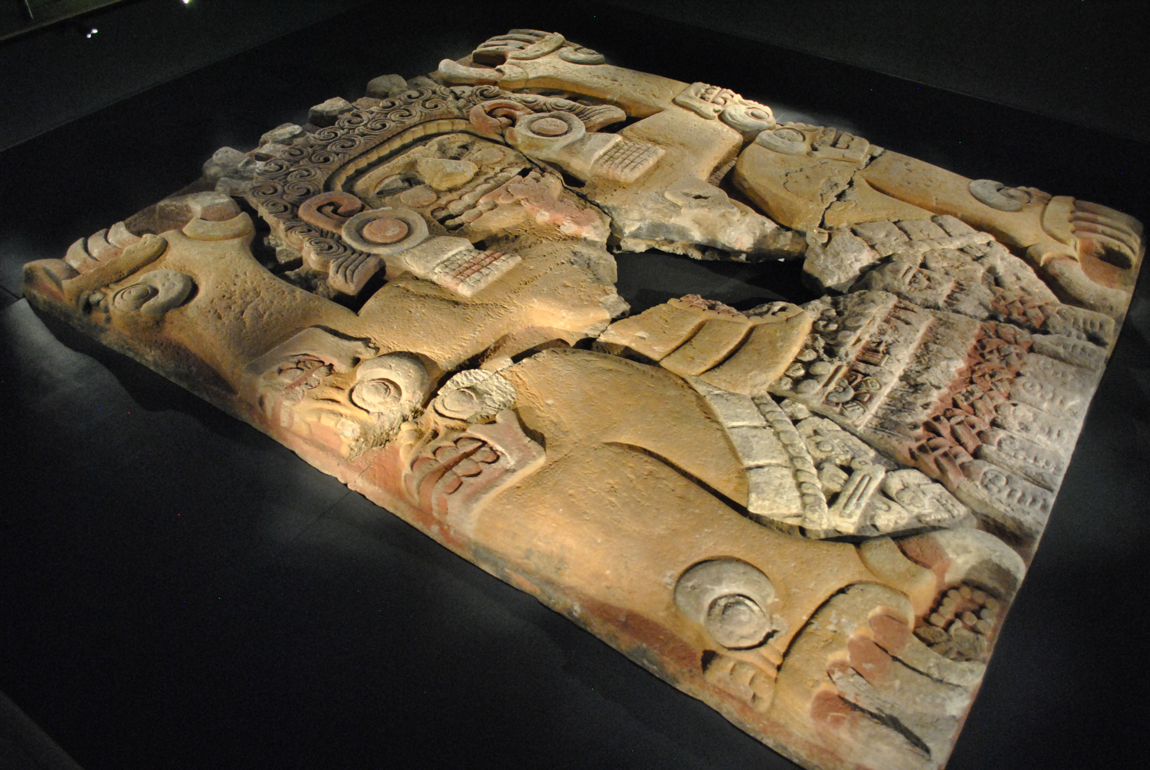 Tlaltecuhtli monolith is a Mexica sculpture, depicting that deity on earth. It was found on October 2, 2006 and is the largest found to date manufactured by the Aztecs, followed by the Sun Stone and Coyolxauhqui Monolith size artwork. (Source: Wikipedia)